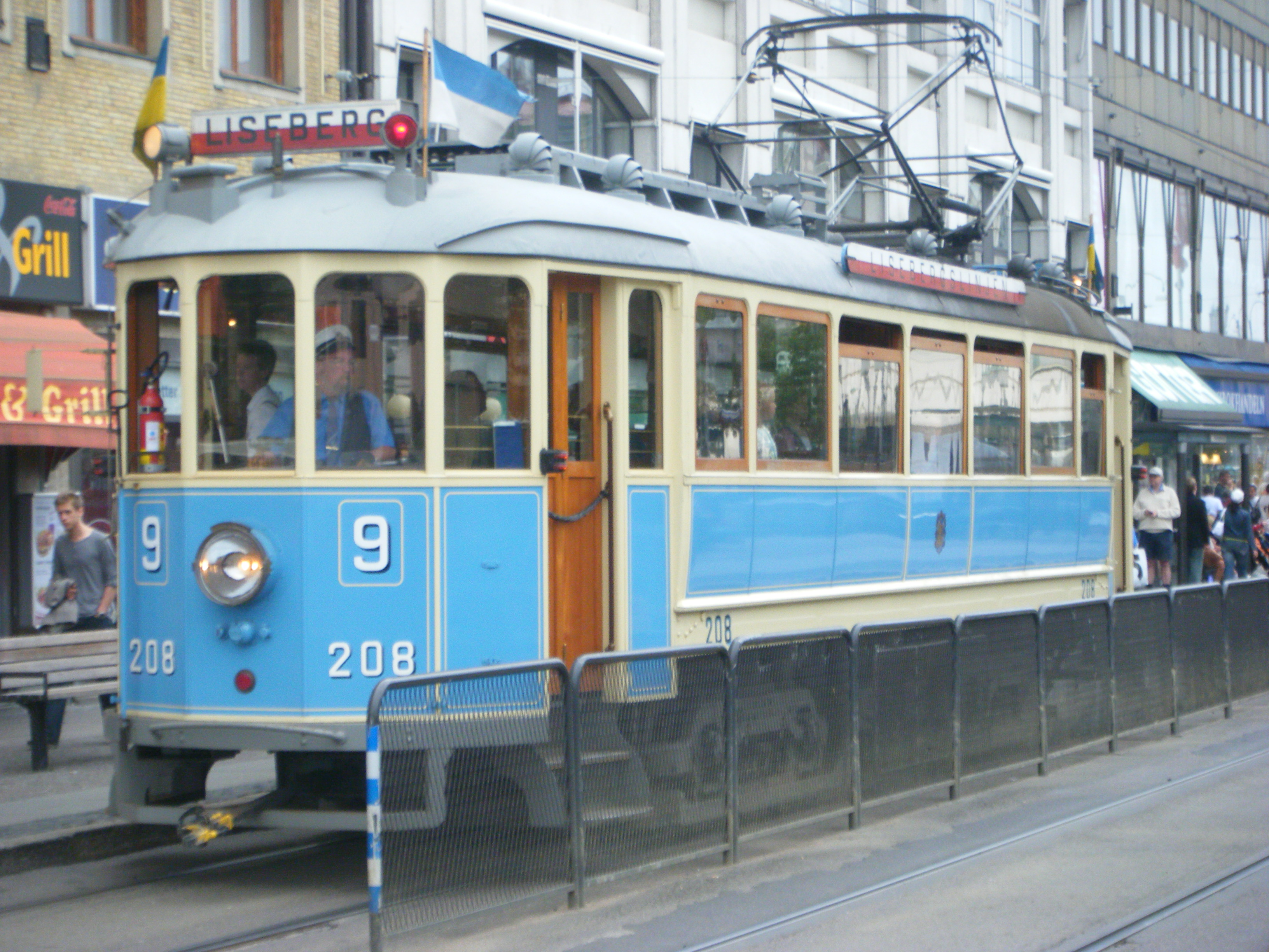 Tram in Gothenburg